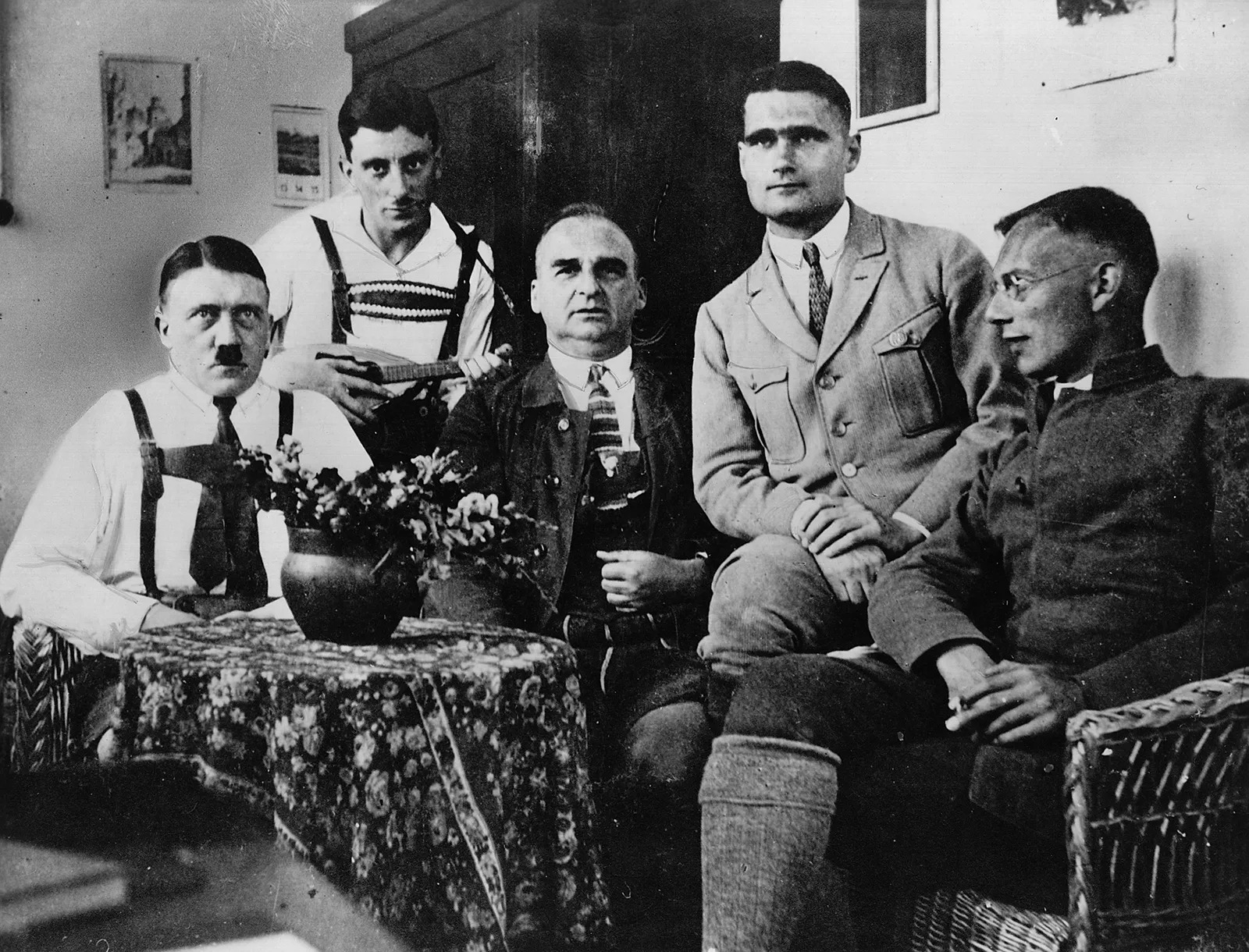 Nazis who participated in the Beer Hall Putsch: Adolf Hitler, Emil Maurice, Hermann Kriebel, Rudolf Hess, Friedrich Weber.